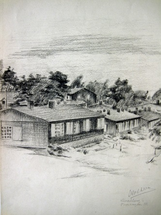 4 sept.1944 drawing of the Administration Barrack III in Oflag XD, by officer PWO Léon Gossens (Tilleur, Belgium) 1908-1993